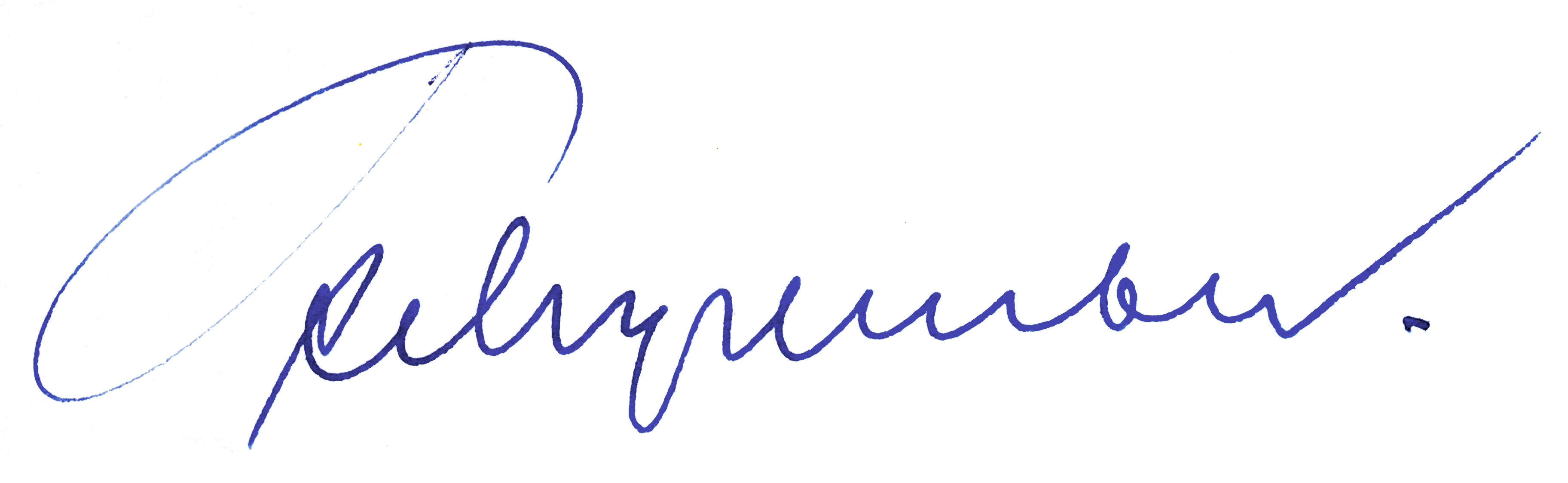 Signature of Willibald Pschyrembel (1901-1987), German physician and author